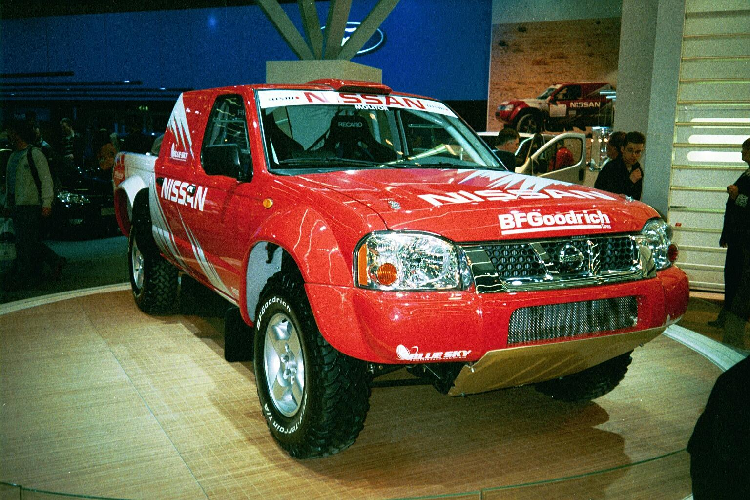 Nissan Motor Co., Ltd